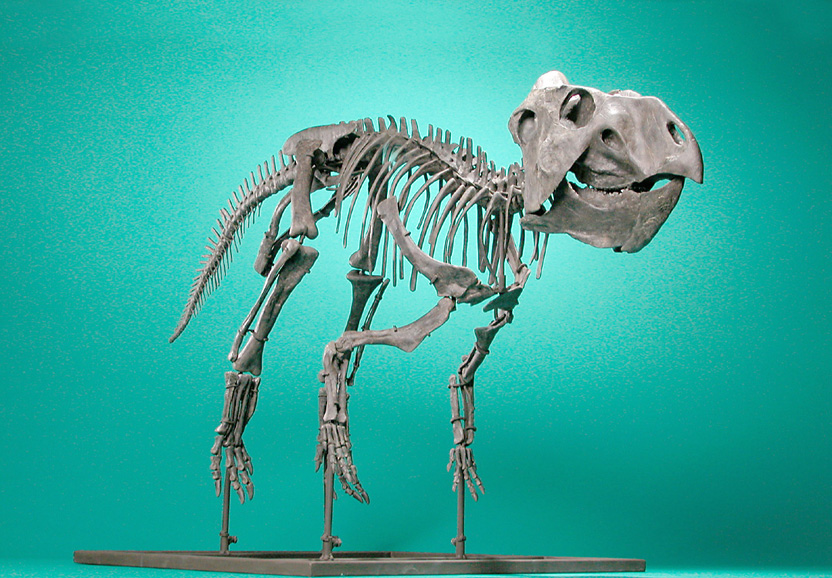 A Prenoceratops from Pondera Co., Montana now in the permanent collection of The Children’s Museum of Indianapolis.